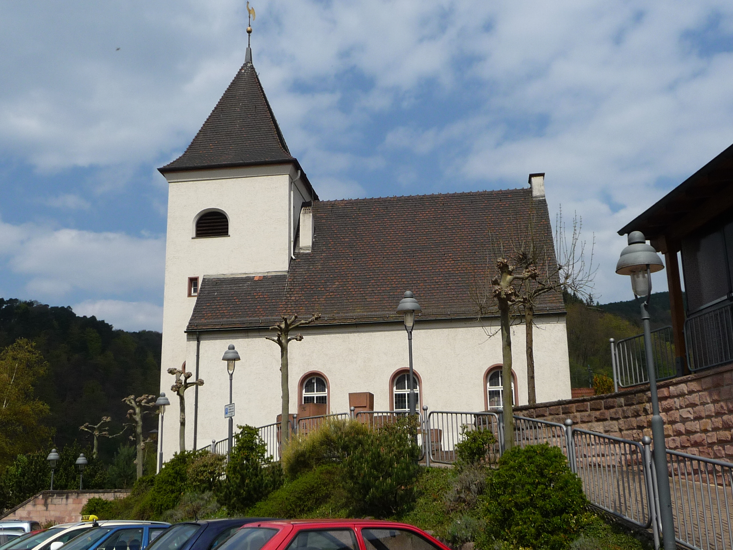 Churches in Neidenfels